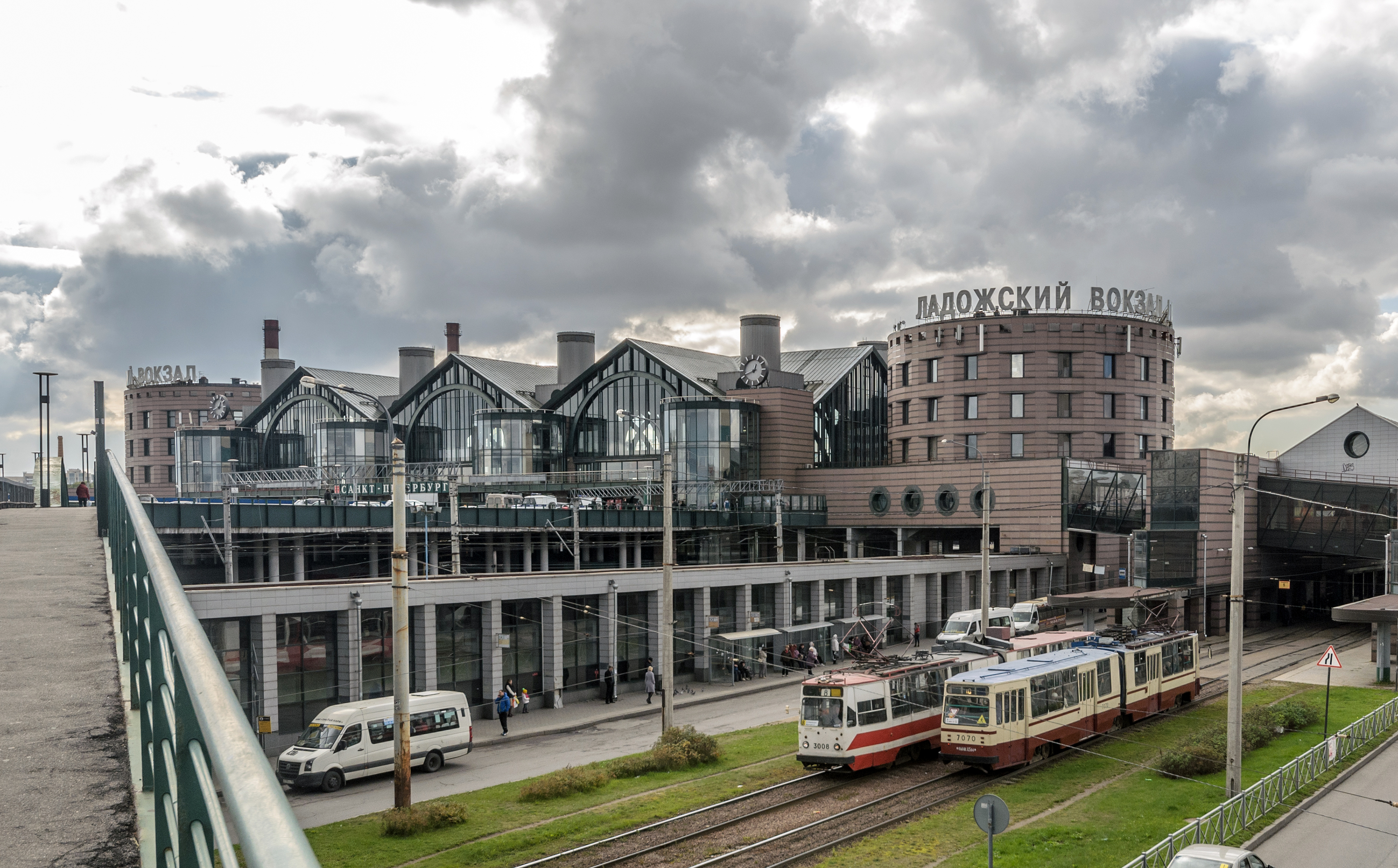 Ladozhsky Rail Terminal in Saint Petersburg, view from the ramp